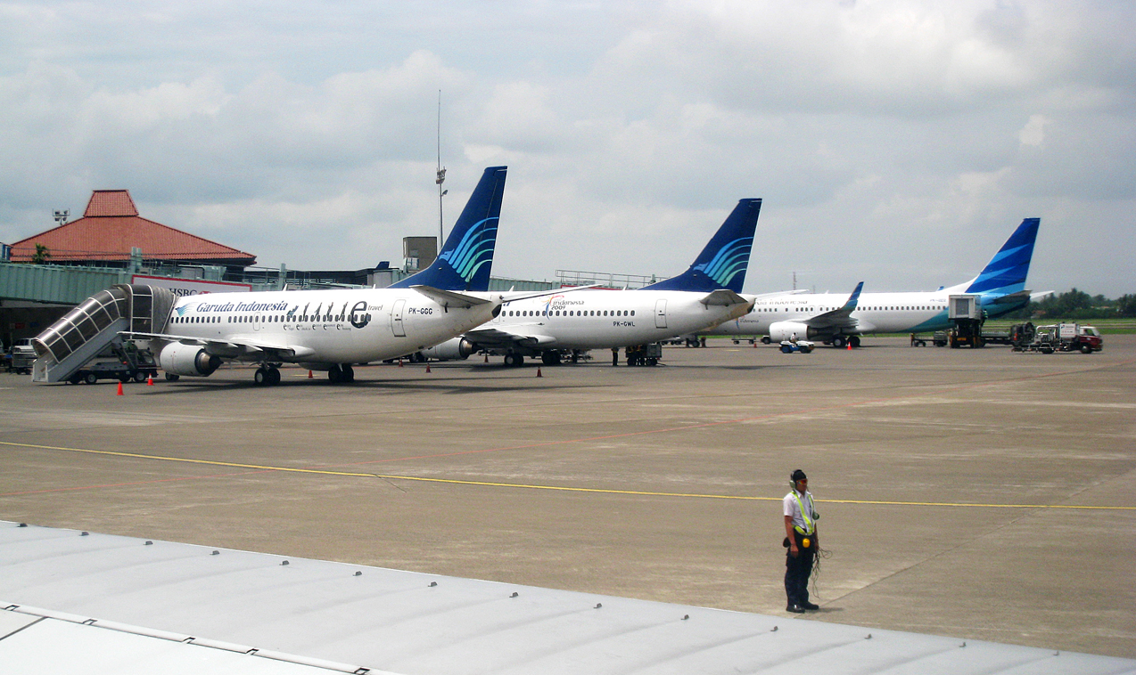 The line up of Garuda Indonesia livery on Boeing 737 at Soekarno Hatta International Airport, Jakarta. Left and center are the old livery, while the far right is the new livery.